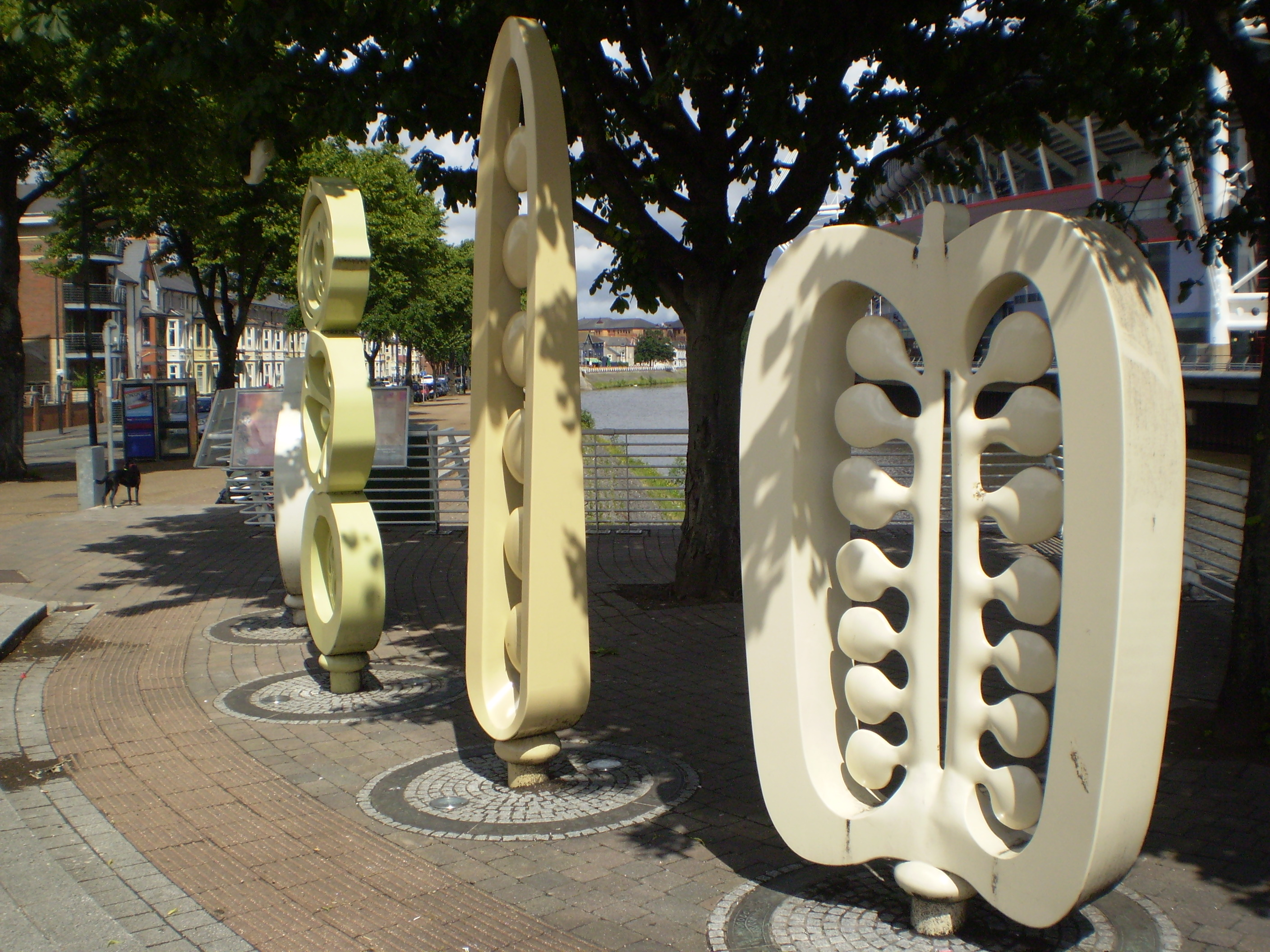 Public art next to the River Taff in the Riverside area of Cardiff, opposite the Millennium Stadium. The scultures are inspired by food ingredients as the Riverside Farmers Market takes place hear every Sunday.